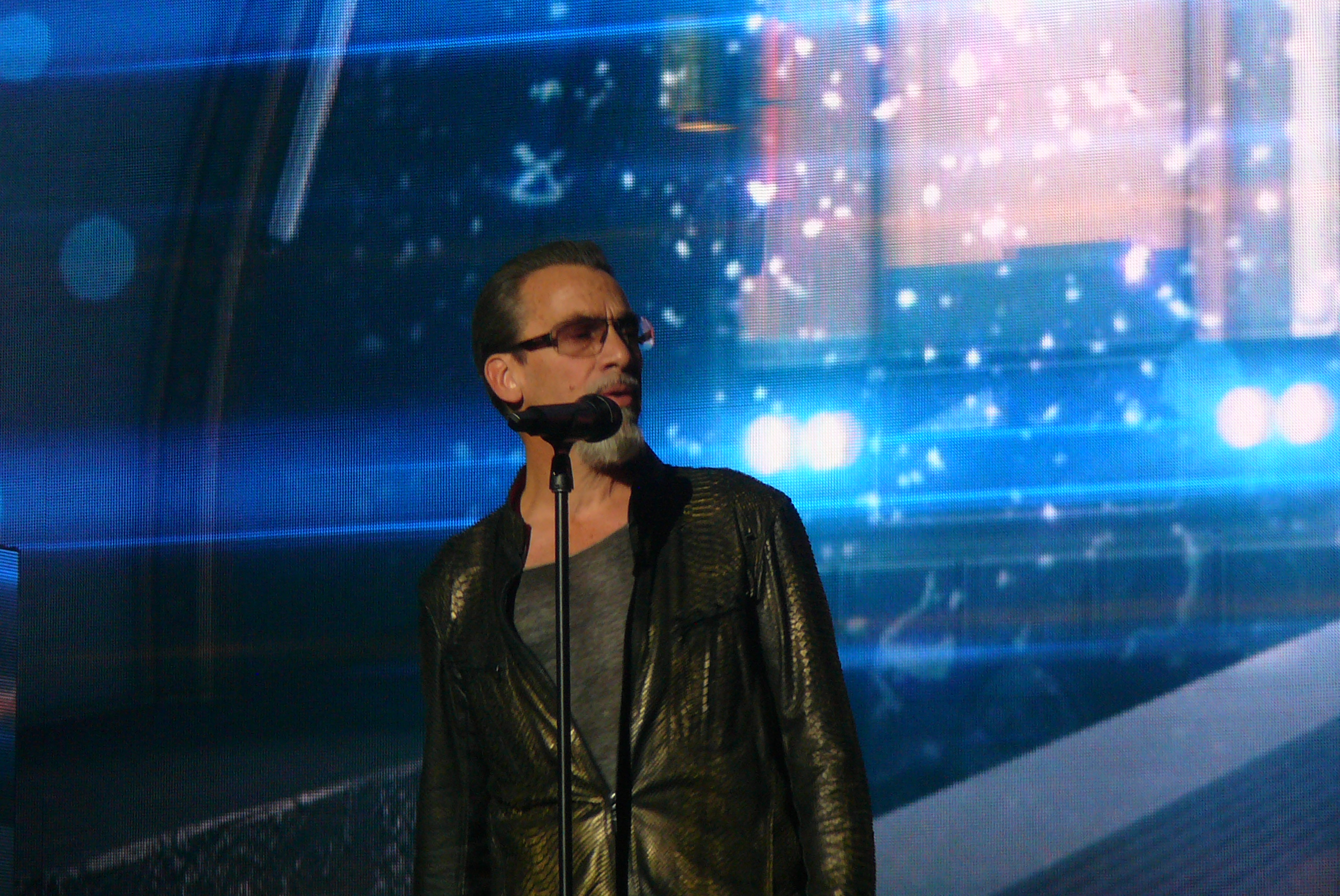 Singer Florent Pagny in concert at Forest National, in Brussels, in Belgium, in 2017, during his 55 tour